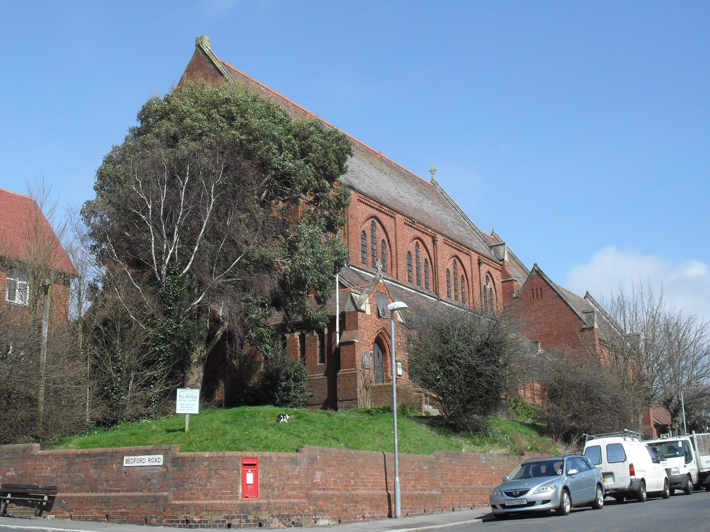 All Souls Church, Athelstan Road, Clive Vale, Hastings, East Sussex, England. Built in 1890 by Sir Arthur Blomfield; now redundant. Listed at Grade II* by English Heritage (NHLE Code 1293681)